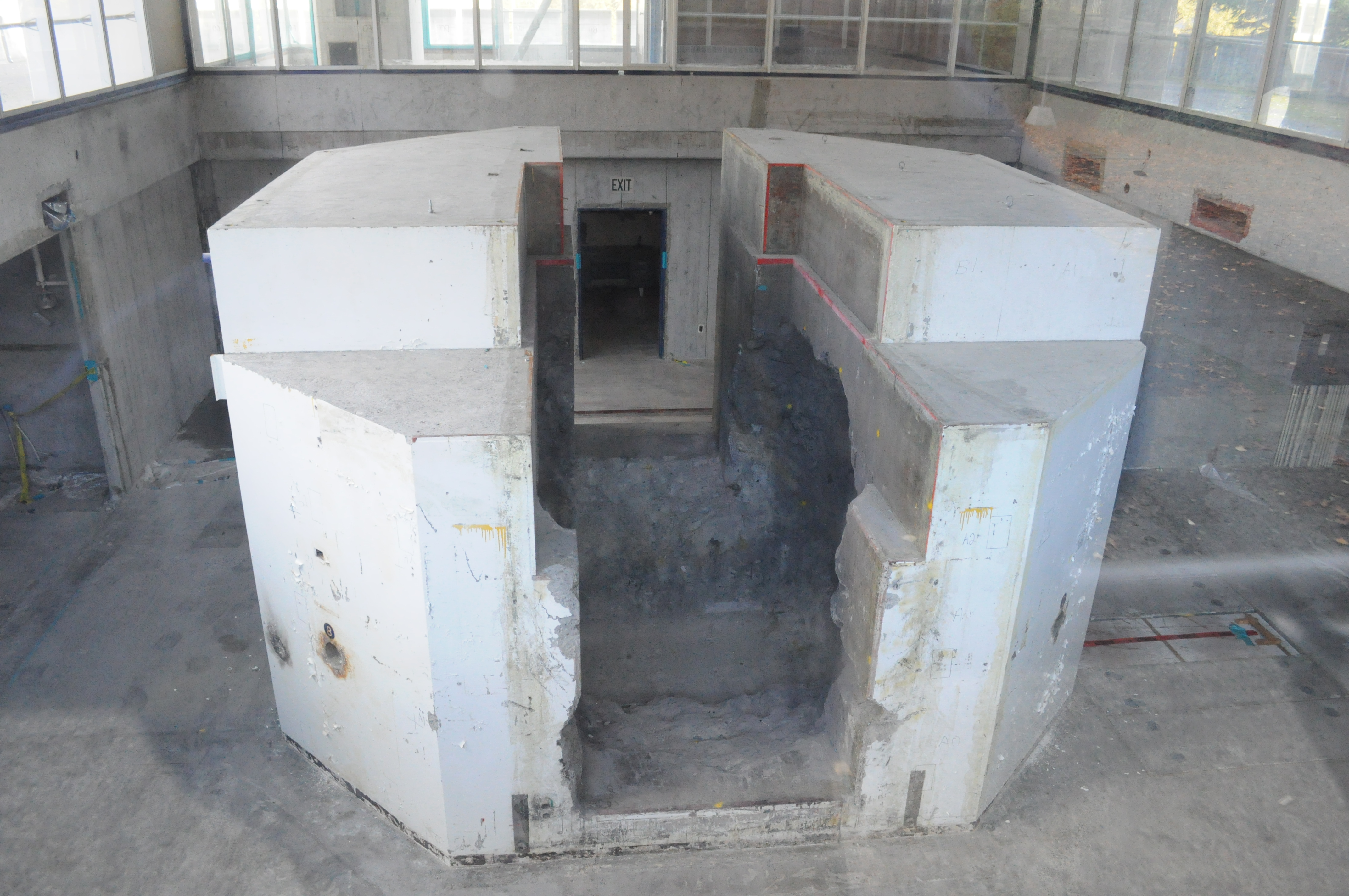 Interior, University of Washington Nuclear Reactor Building also known a More Hall Annex; opened in 1961, the reactor stopped operating in 1988, fuel rods were removed in the years that followed, decontamination continued in 2006. Added to Washington State list of historic places in 2008 and to the National Register of Historic Places in 2009.